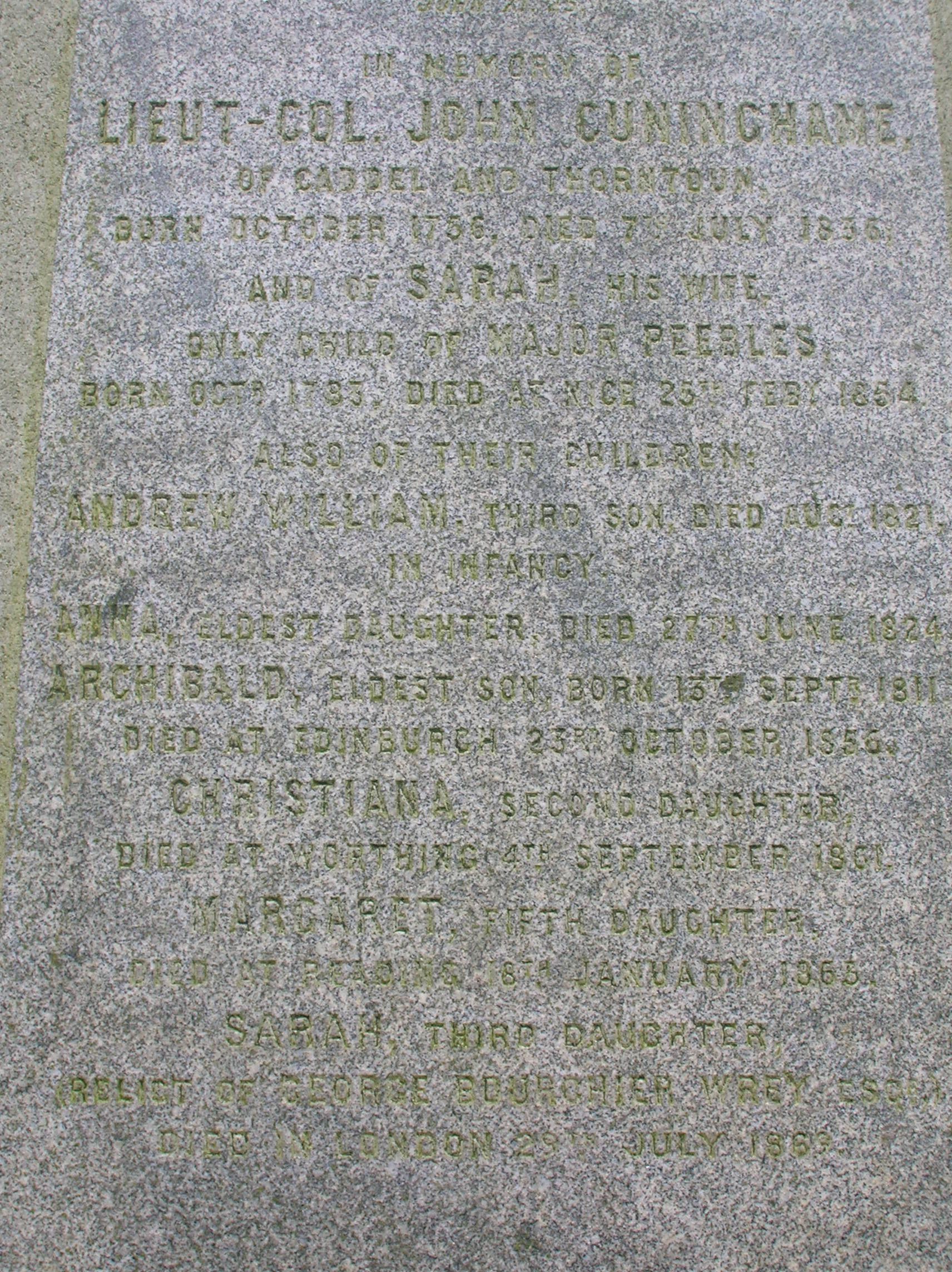 Detail of the grave of the Cuninghame's of Cadel and Thontoun in Kilamurs-Glencairn churchyard, East Ayrshire. 2007.